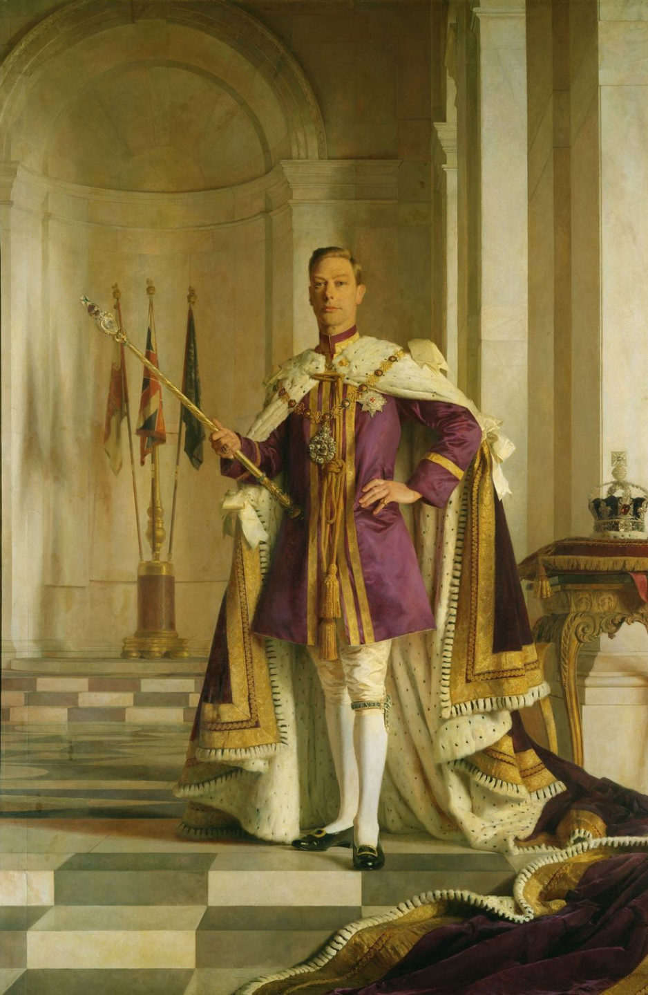 Commissioned by George VI of the United Kingdom